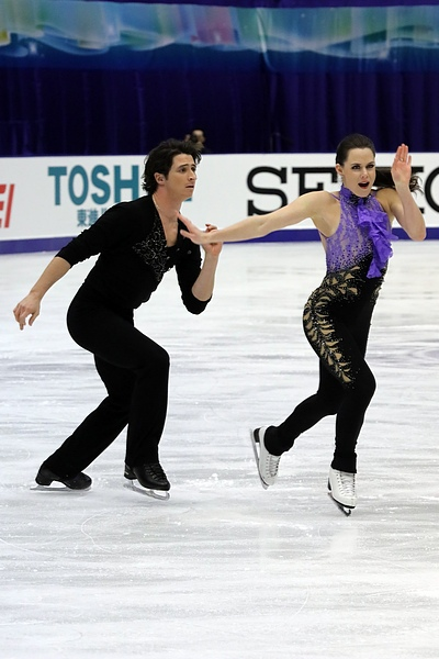 Tessa Virtue and Scott Moir at the 2016 NHK Trophy